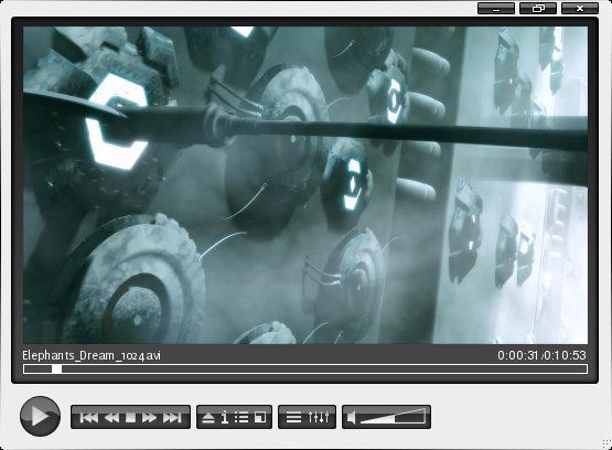 Screenshot of VLC 0.8.5 with new skin, playing Elephants Dream